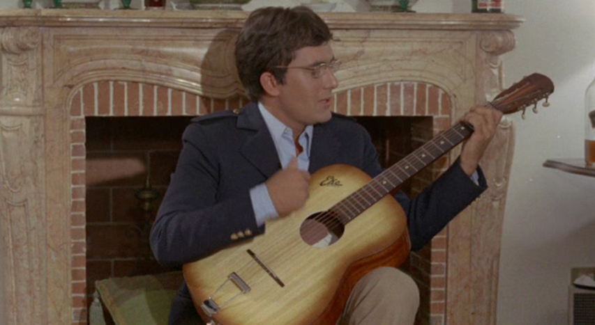 Al Bano in a scene of the film Nel sole